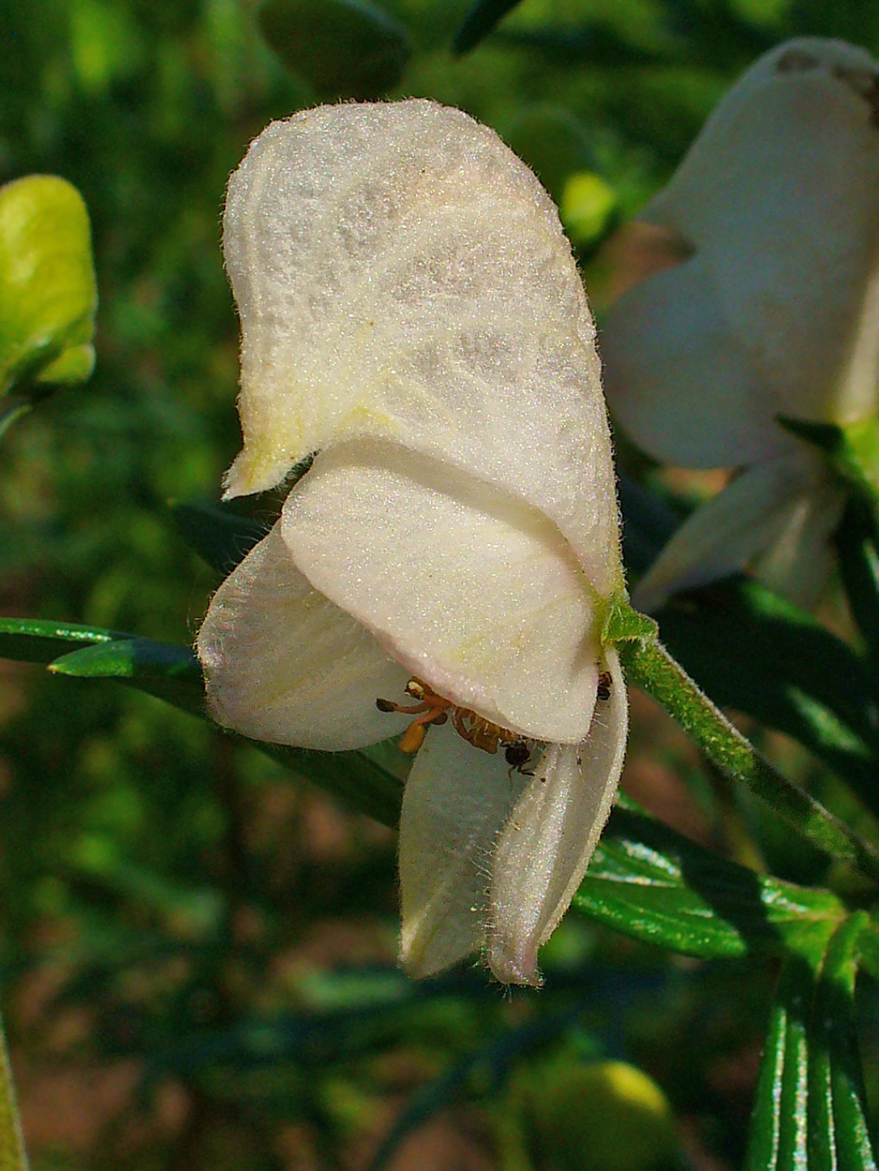 Aconitum napellus 'Albus' , Ranunculaceae, Monkshood, Wolf's Bane, Monk's Blood, Monk's Hood, white flowering cultivar; ; Garden near Karlsruhe, Germany, not geocoded for private reasons